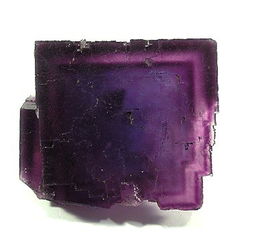 Fluorite Locality: Denton mine, Goose Creek Mine Group, Harris Creek Sub-District, Illinois - Kentucky Fluorspar District, Hardin County, Illinois, USA (Locality at ) This is one of the most spectacular Illinois fluorite crystals I have seen! In addition to its prodigious size, the pics just cannot capture the AMAZING bright blue, sharply outlined zoning inside! The best way to show this specimen would be to put it on a simple lighted stand that sends light up into the crystal – it is truly amazing. Hold it up to a light and the interior just GLOWS. The crystal is in GREAT shape, with only one small corner ding that is not significant relative to the size of the specimen, and PRISTINE everywhere else. Just on size alone, this would be an amazing crystal of ANY mineral! But a beautifully zoned Illinois fluorite – well, so much the better! These are vanishing from the market rapidly to be sure, but even durin gthe mines' heyday you did not see large crystals of this size and showiness very often. 11.5 x 10.5 x 10 cm